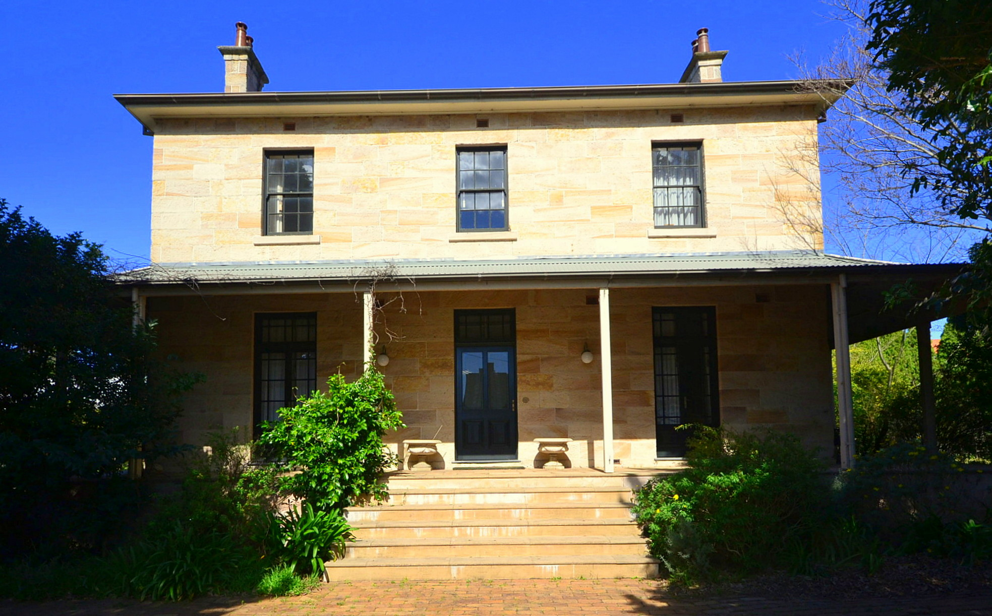 Waimea, Woollahra, Sydney (this image has been altered to remove tilt and increase sharpness, 2014-4-48, by User:Sardaka)